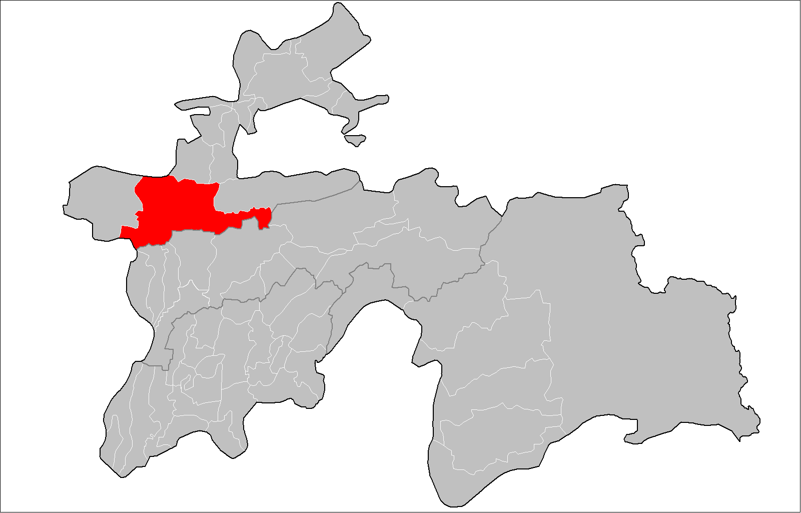 Location of Ayni District in Tajikistan